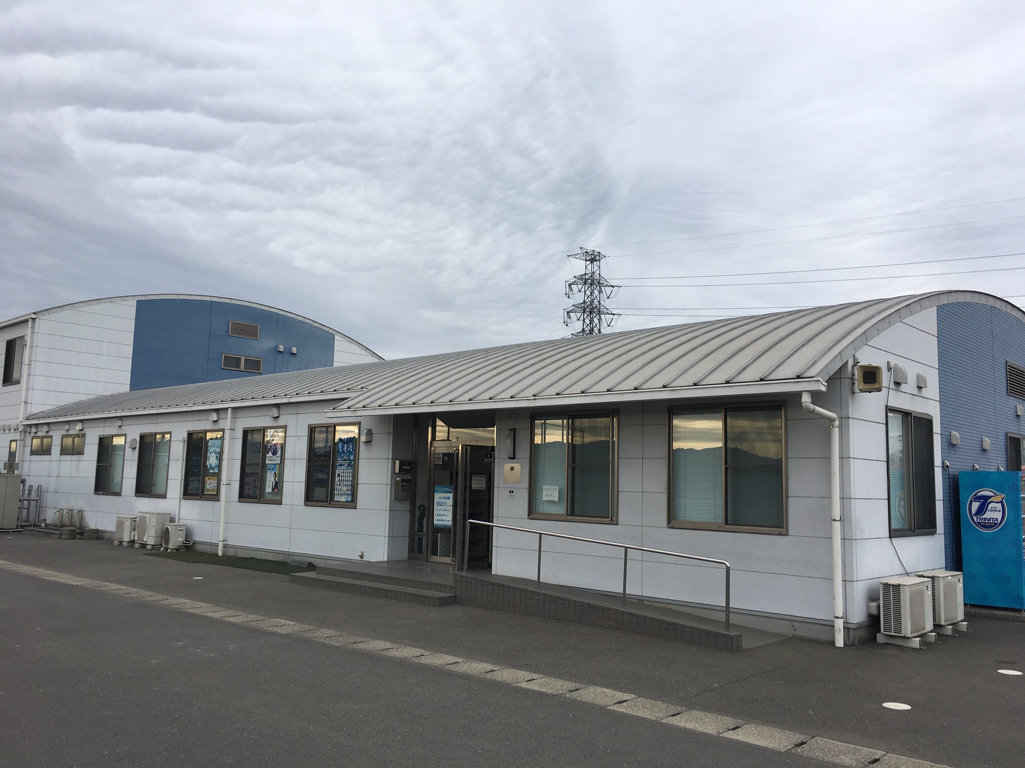 Oita Sports Club, Club House